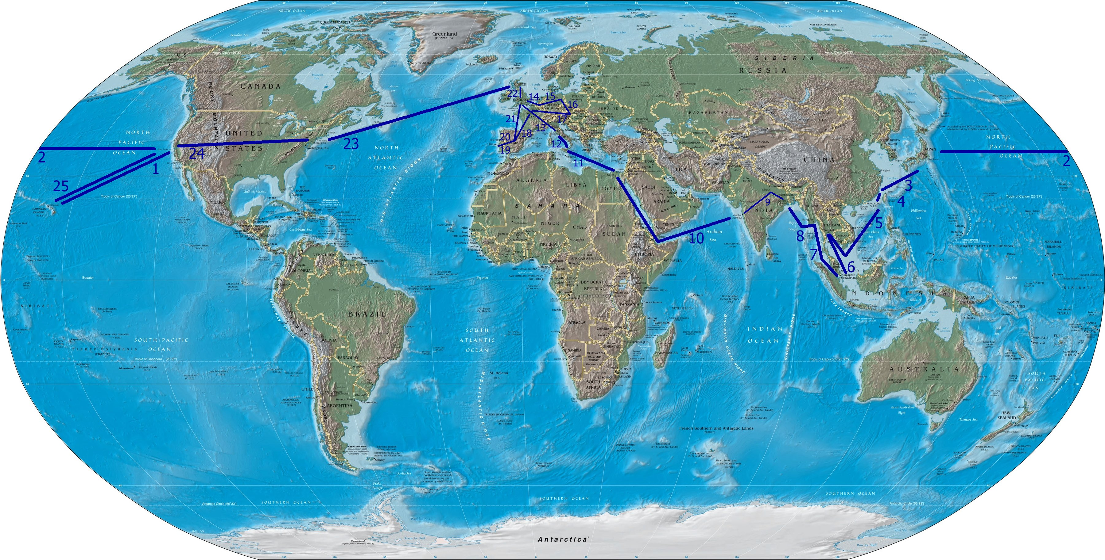 Journey of King Kalākaua in 1881; schematic view of visited countries and general sequence of visits, not the exact traveling route, second visits (London, Paris) not included